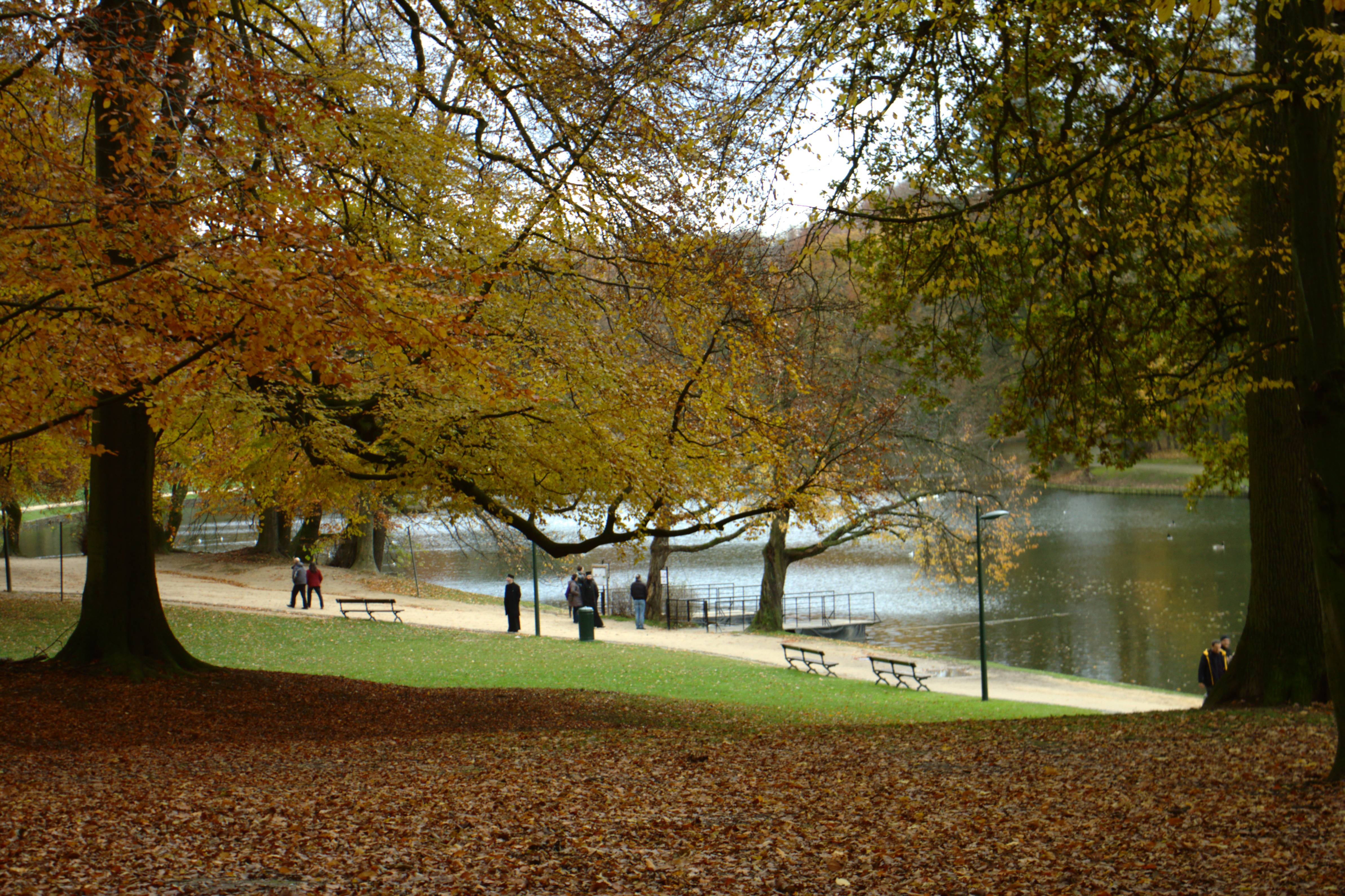 Fall in the Bois de la Cambre forest in southern Brussels, Belgium